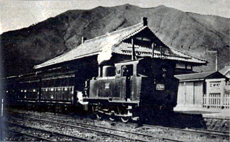 JGR Class 1760 steam locomotive No. 1760 at Yahiko Station